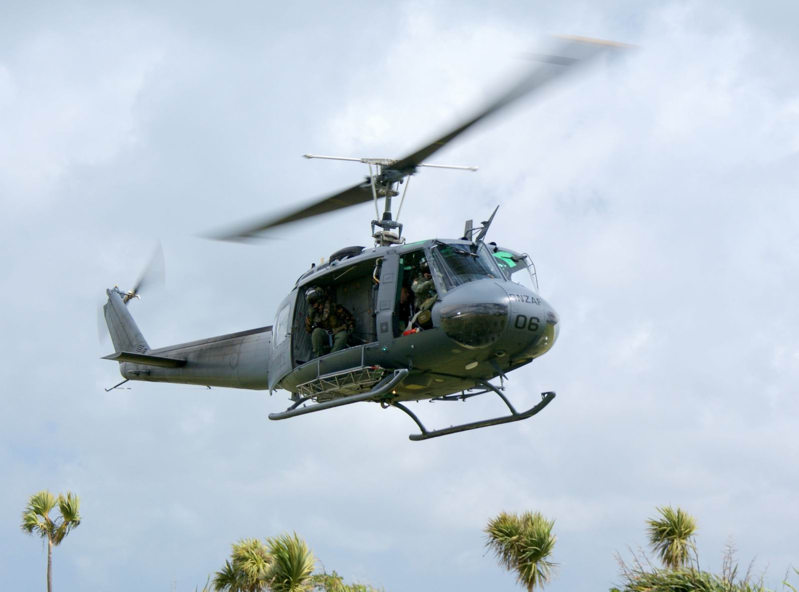 RNZAF Iroquois training with NZ Police Dive Squad